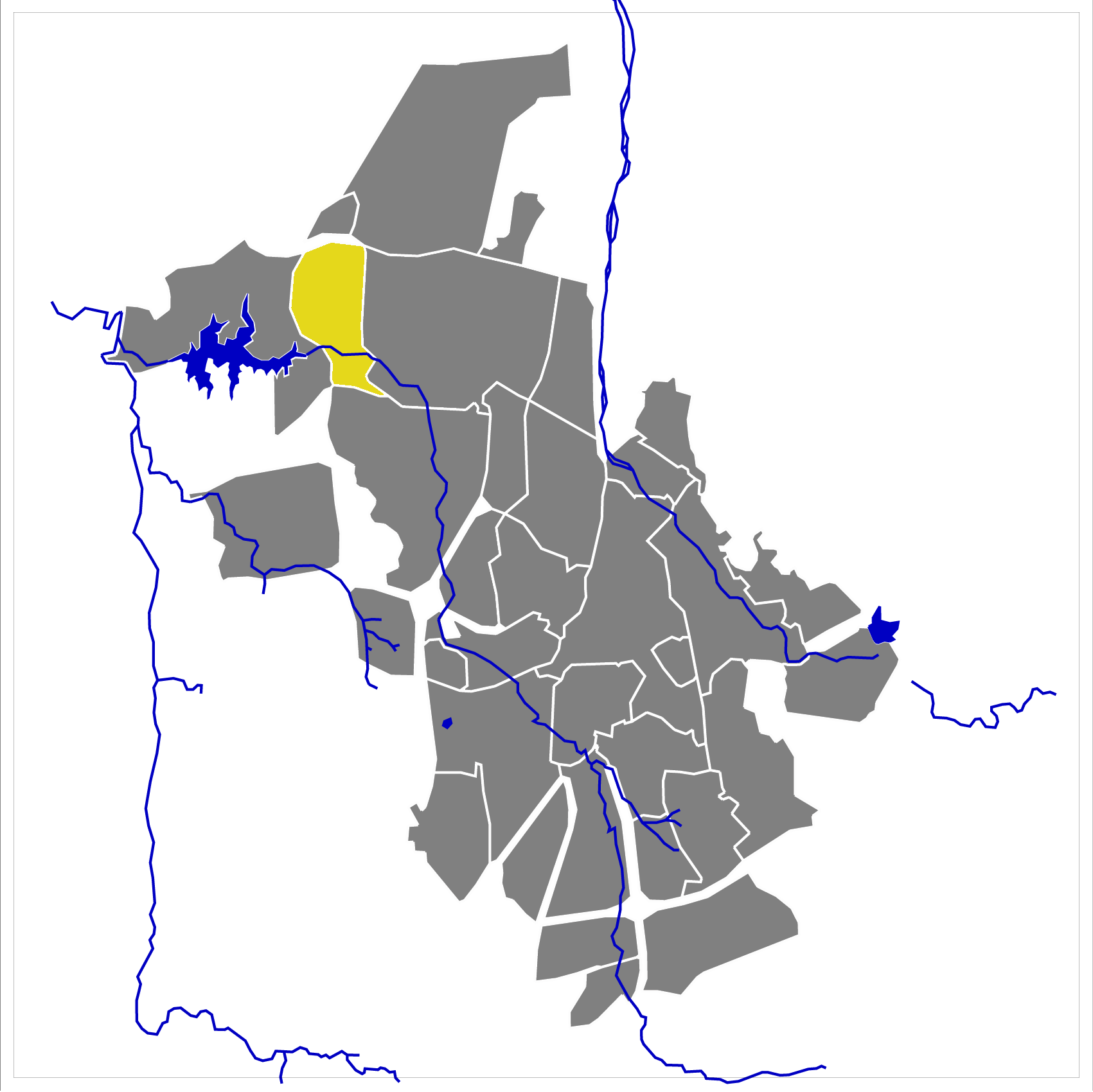 map of Windhoek suburb Wanaheda.